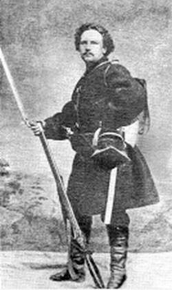 Mieczysław Romanowski (1833-1863) - Polish Romantic poet.